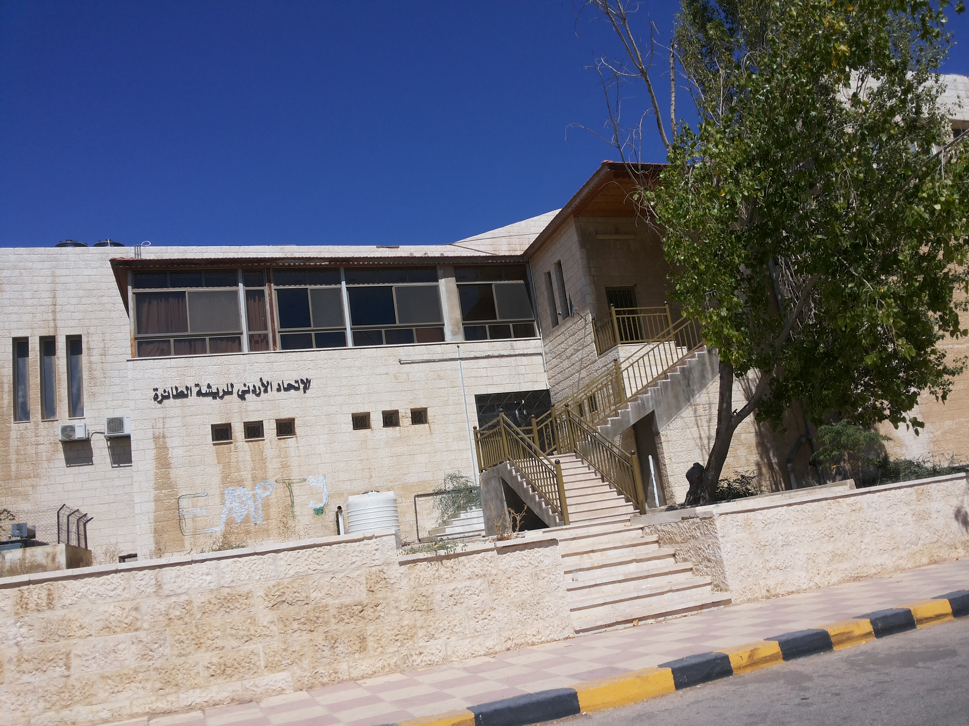 Jordan Badminton Federation at Al Hussein Youth City, Amman, Jordan.